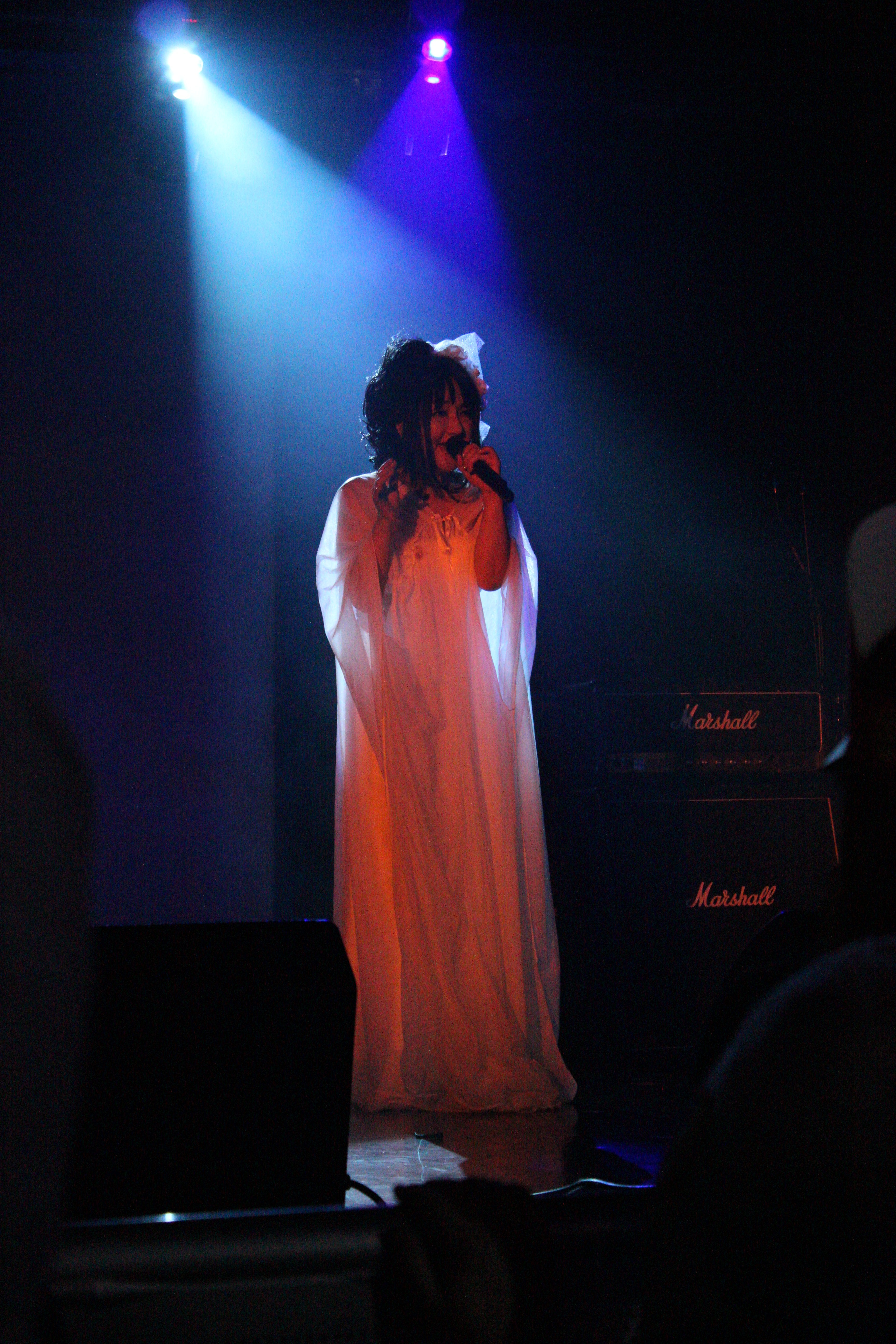 Vocalist Kuroishi Hitomi performing at 2015 HYPER JAPAN summer festival, London. More photos available from my Flickr gallery.